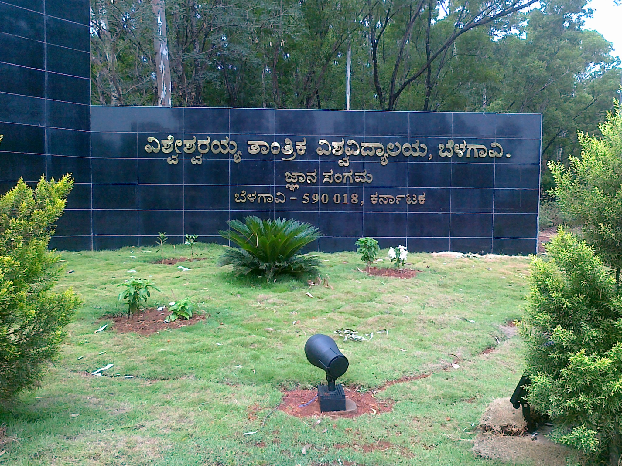 VTU Entrance